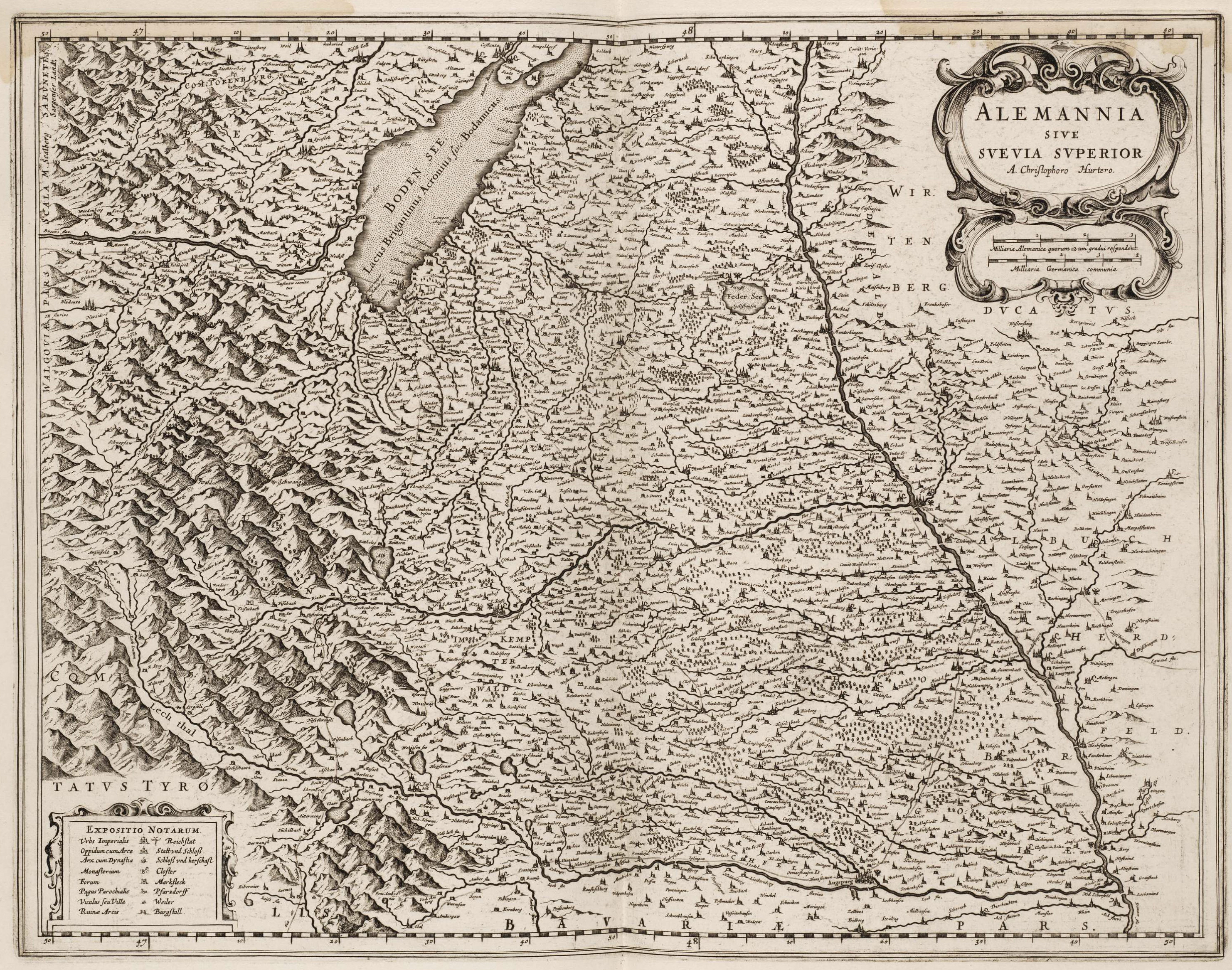 Alemannia sive Suevia Superior a Christophero Hurtero (wohl aus "Theatrum Orbis Terrarum, sive Atlas Novus in quo Tabulæ et Descriptiones Omnium Regionum, Editæ a Guiljel et Ioanne Blaeu" ?) 1645